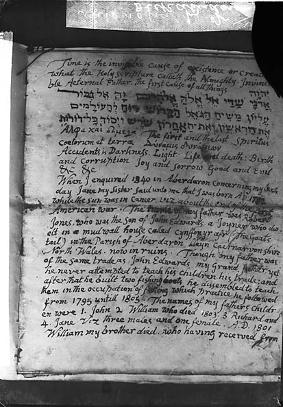 1 negative : glass, dry plate, b&w ; 16.5 x 12 cm.